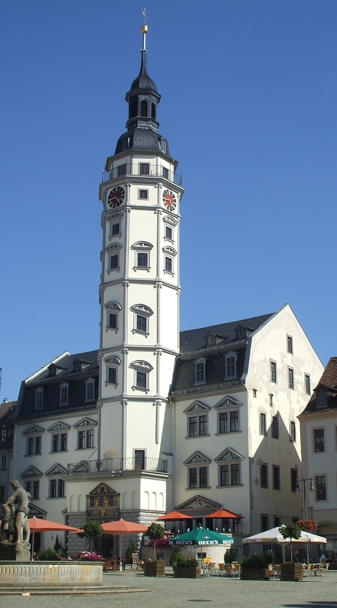 city hall of Gera, Germany